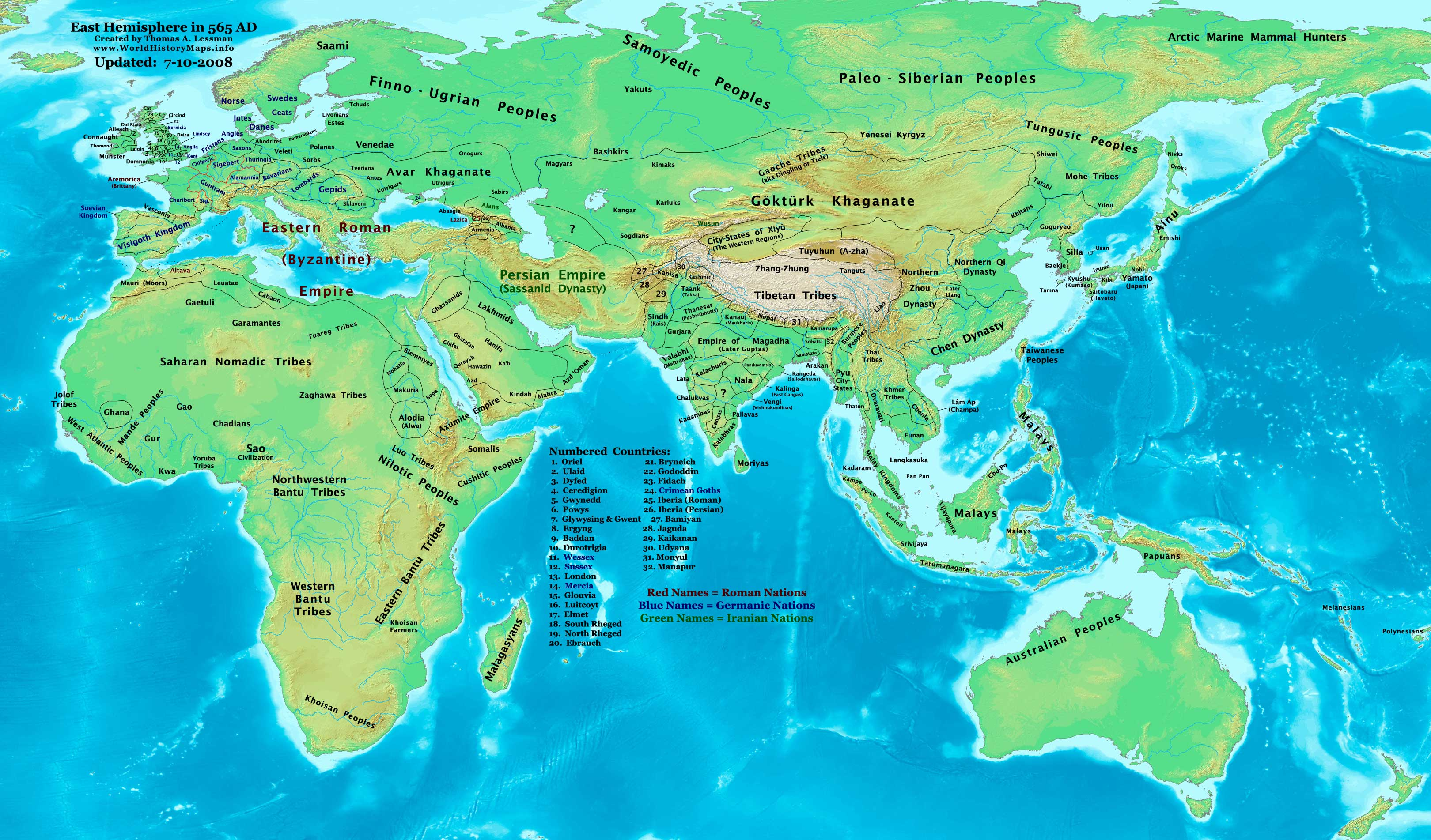 Eastern Hemisphere in 565 AD